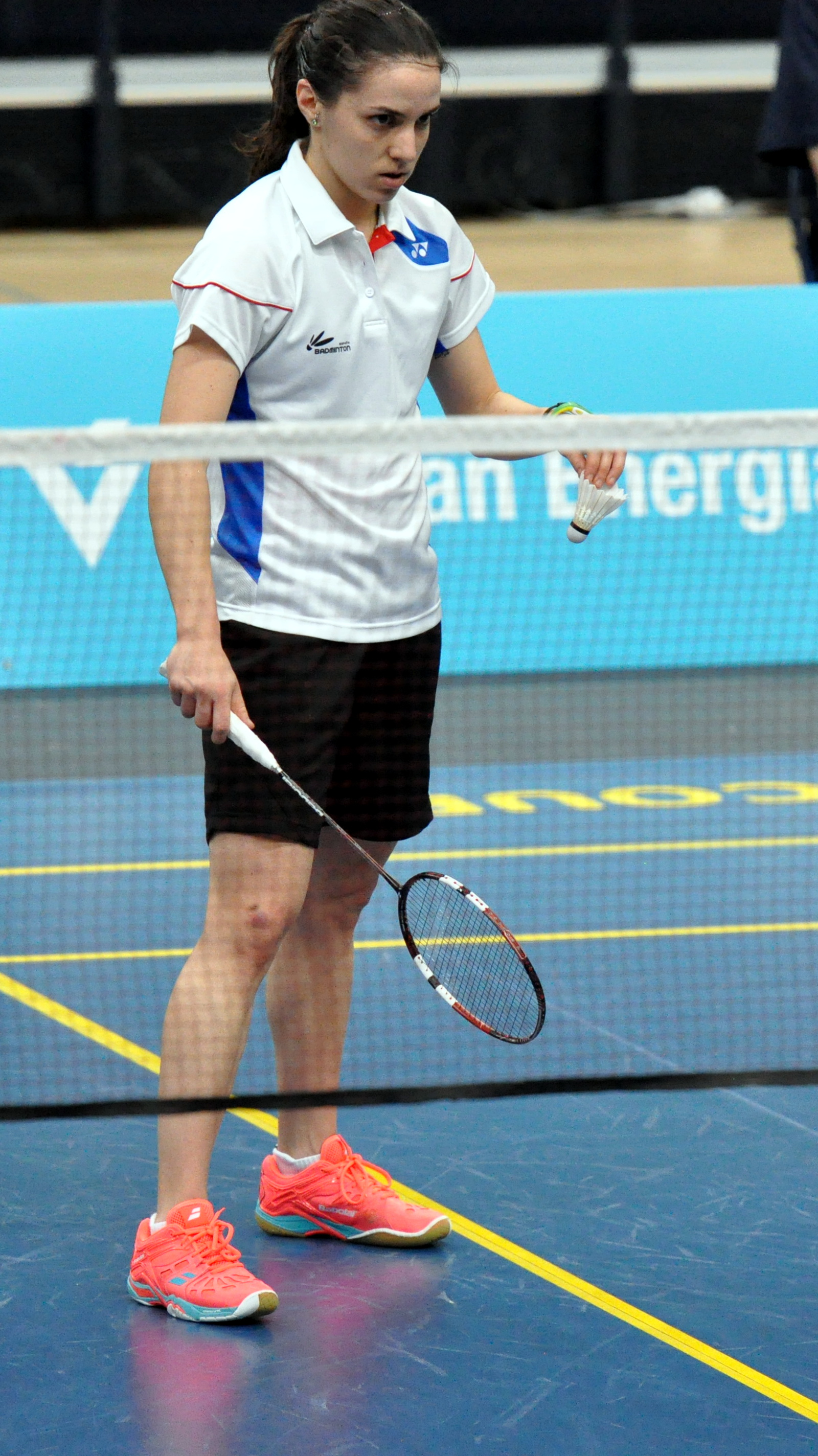 Beatriz Corrales is a female badminton player from Spain.